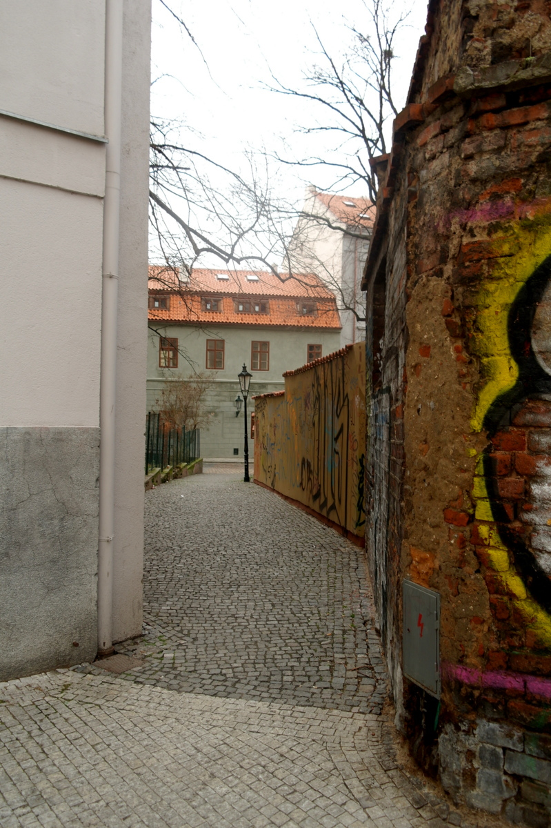 Municipal courtyard, 800/9 U obecního dvora str., Old Town (Prague), the capital city Prague. The view across the aisle Ve Stínadlech.